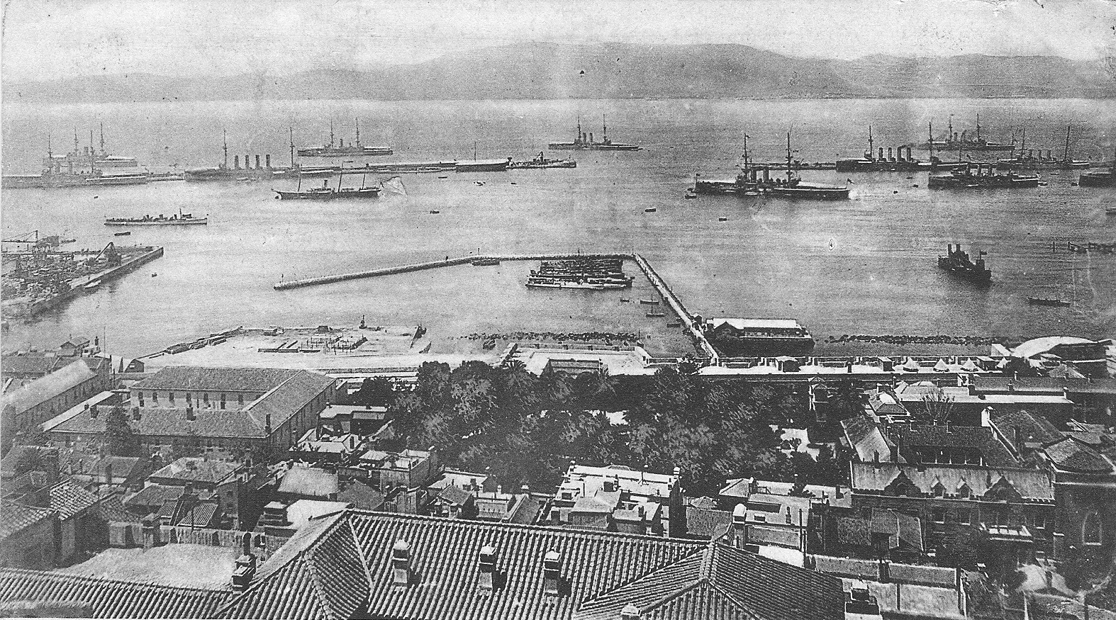 Port of Gibraltar circa 1905